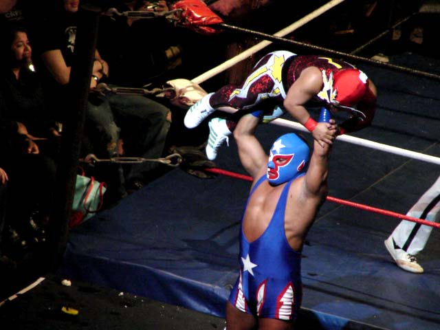 Picture of pro wrestler Pierrothito lifting Tzuki up in the air.